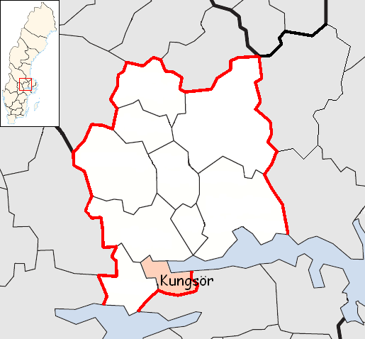 Kungsör Municipality in Västmanland County, Sweden, after Heby Municipality was transferred to Uppsala County